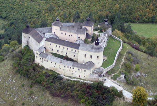 Krásna Hôrka, castle, Slovakia, aerial photography